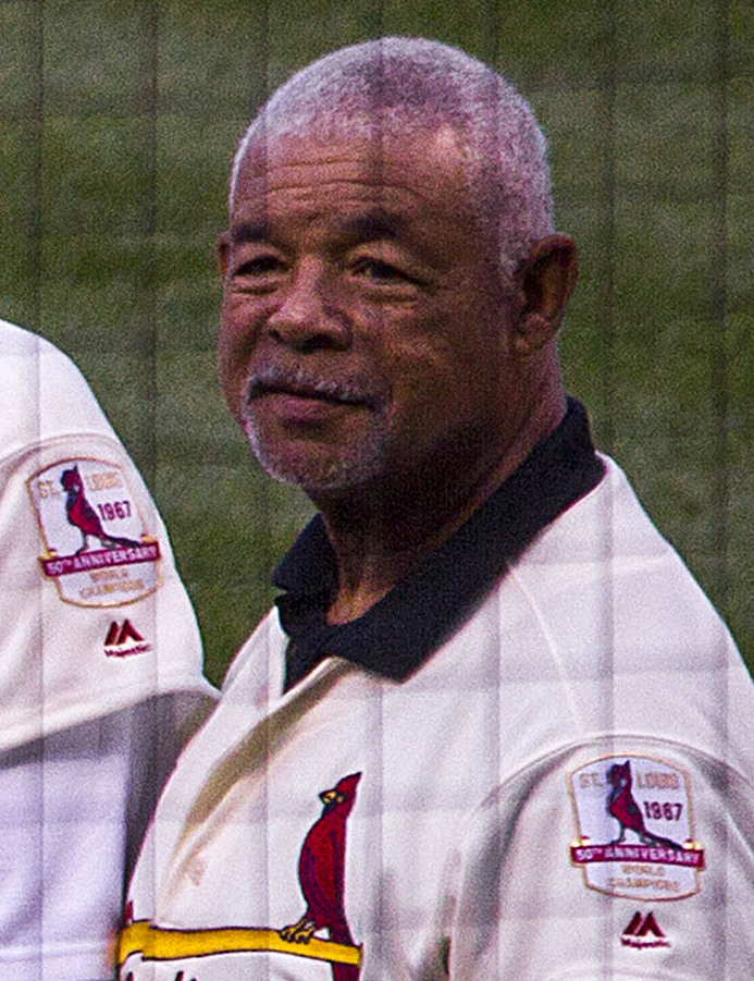 5-17-17 St.Louis Cardinals 1967 World Series Reunion.